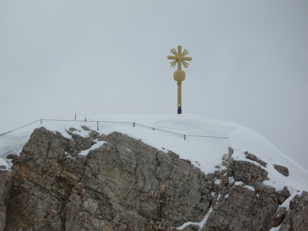 Zugspitzgipfel Taken on the 24th of May 2005 by User:Woozifi himself.